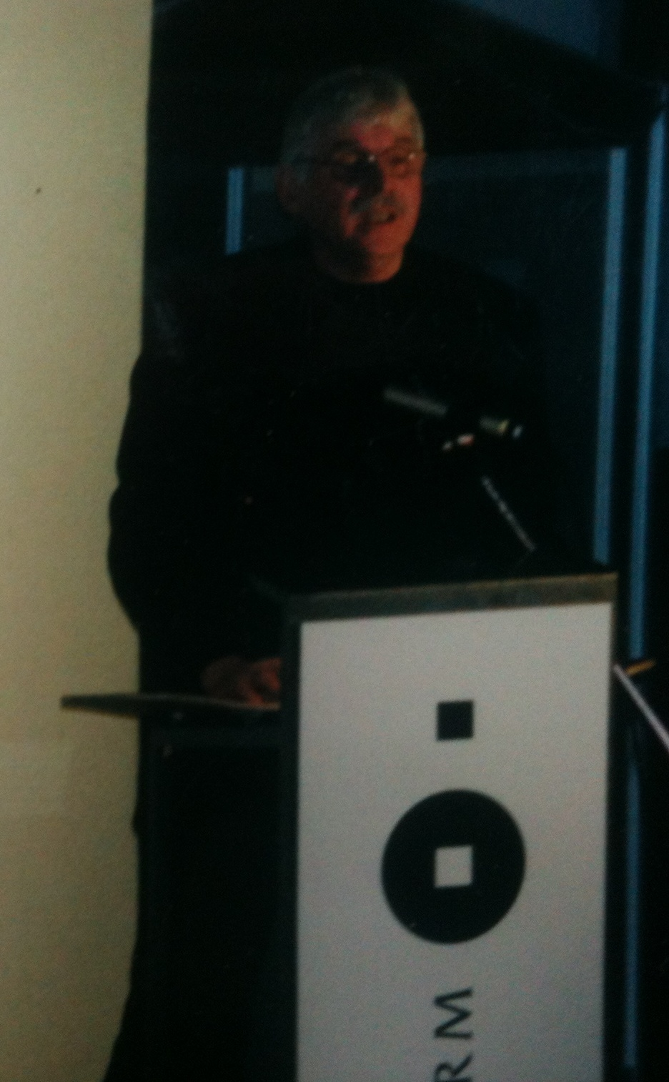 The norwegian industrial designer Roy Håvard Tandberg (b 1940) receiving the Jacobprisen design award